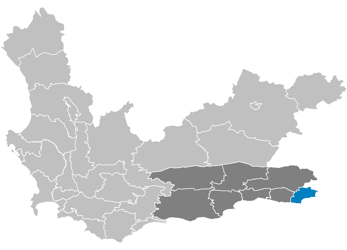 Map showing the Bitou Local Municipality, within the Eden District Municipality, within the Western Cape.